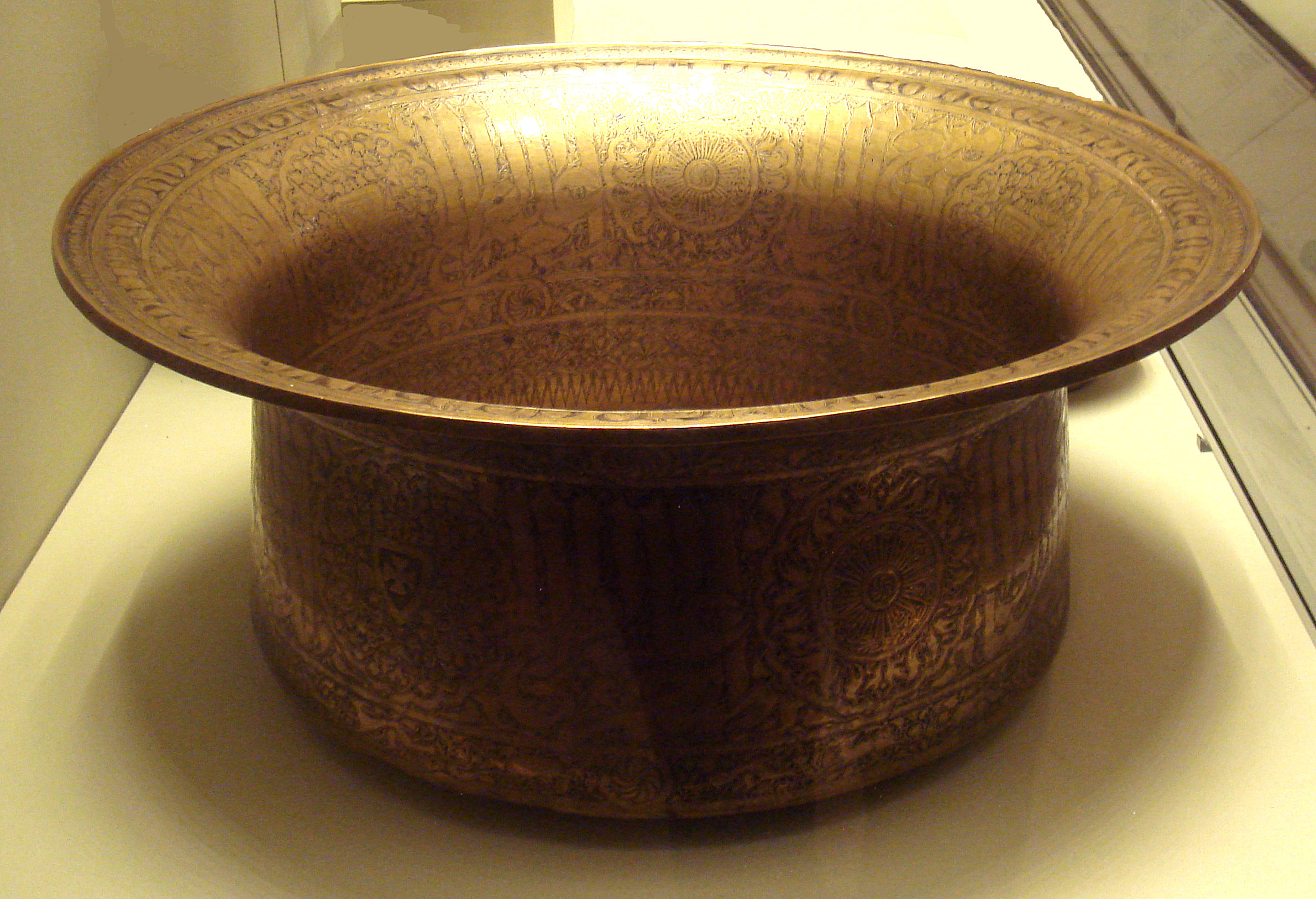 Bassin attributed to Hugues IV de Lusignan, 14th century